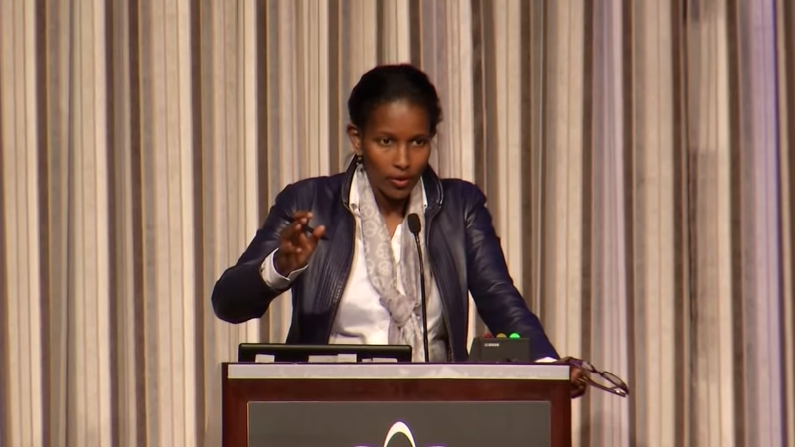 Ayaan Hirsi Ali speaking at the American Atheists National Convention 2015